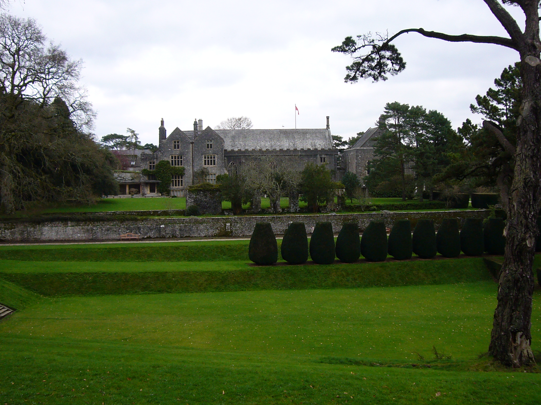 Dartington Hall from the gardens.